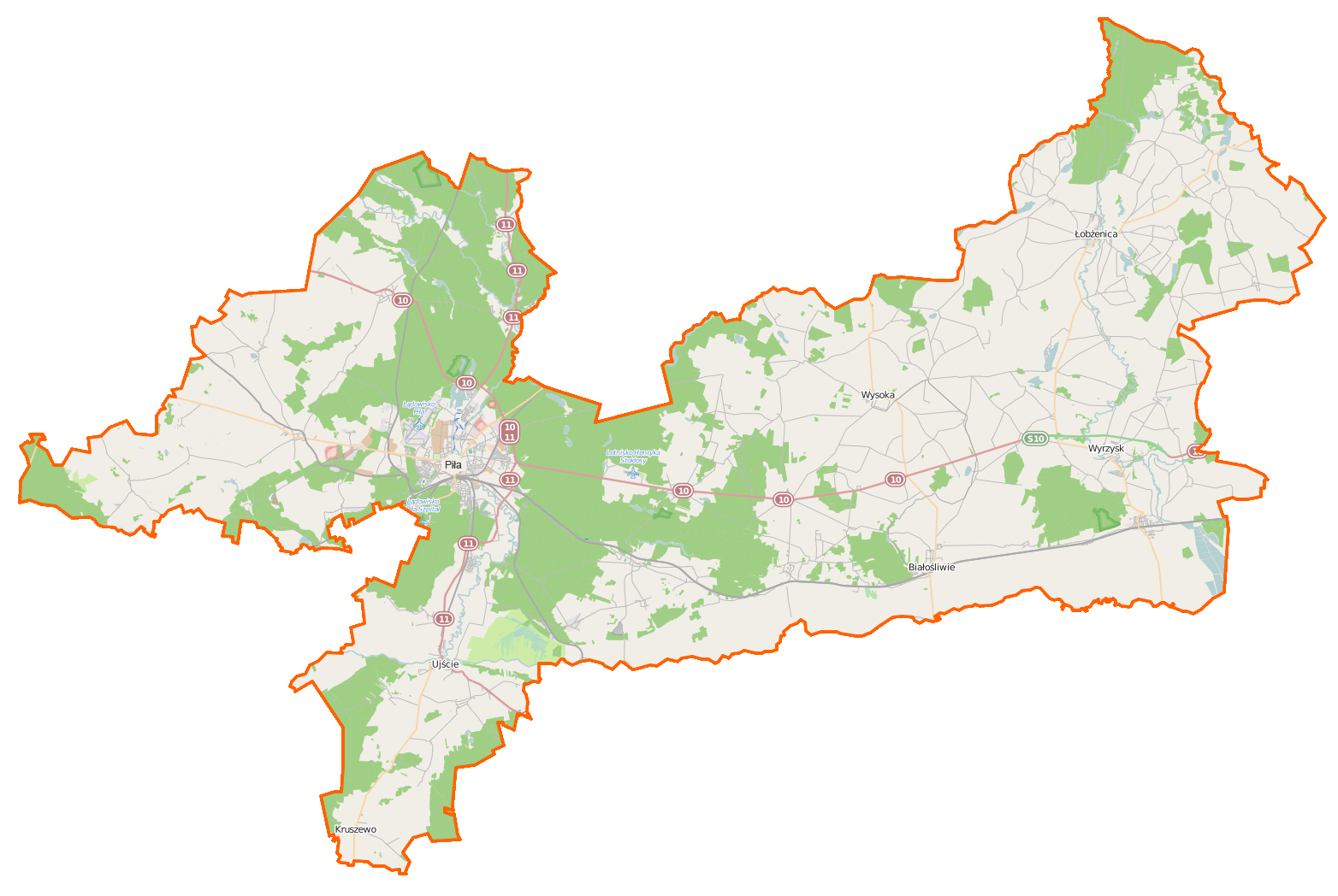 Map of Powiat pilski, Poland This map of Powiat pilski was created from OpenStreetMap project data, collected by the community. This map may be incomplete, and may contain errors. Don't rely solely on it for navigation. Border coordinates53.371916.3751←↕→17.448352.9408